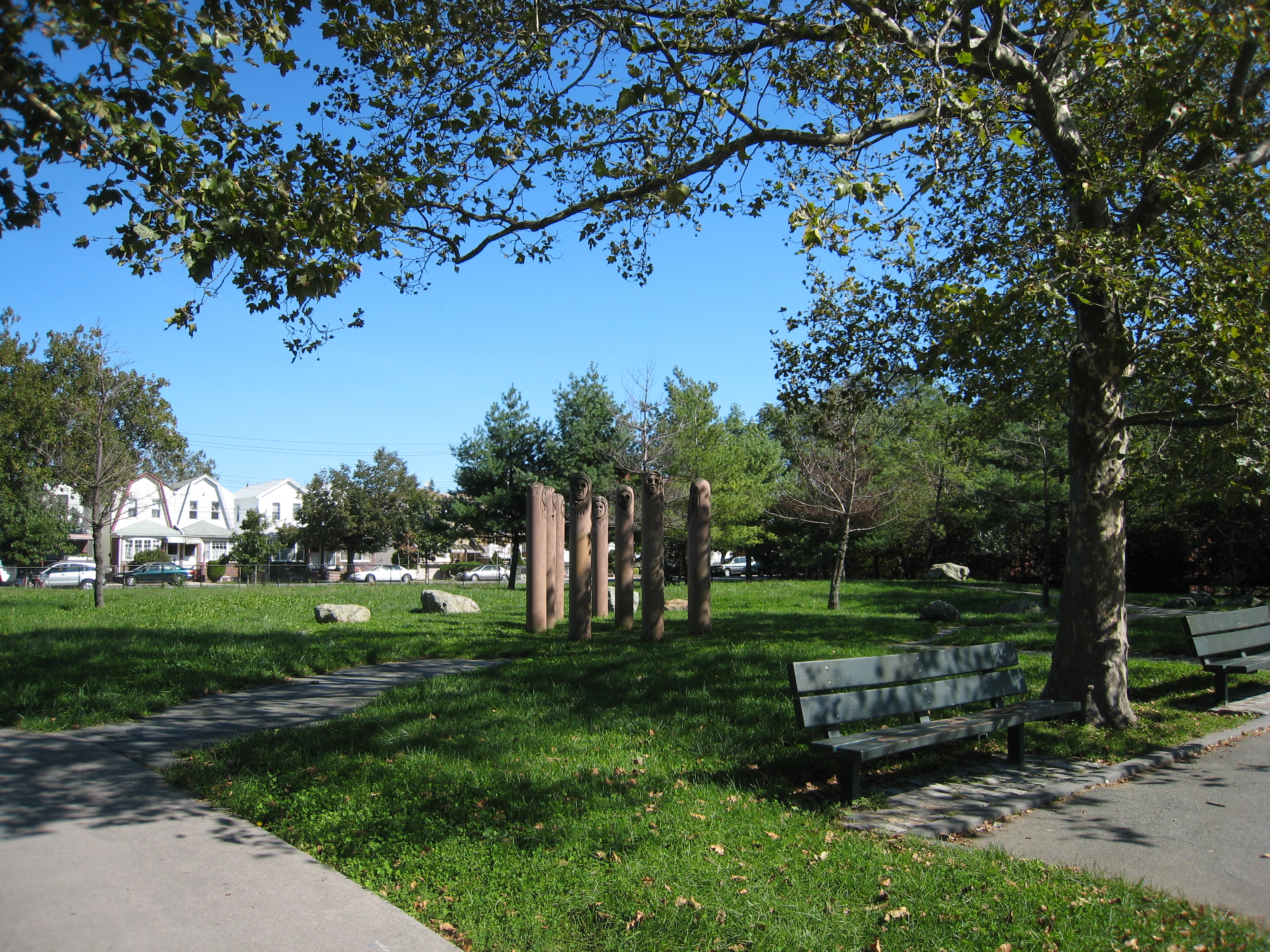 Marine Park, Brooklyn